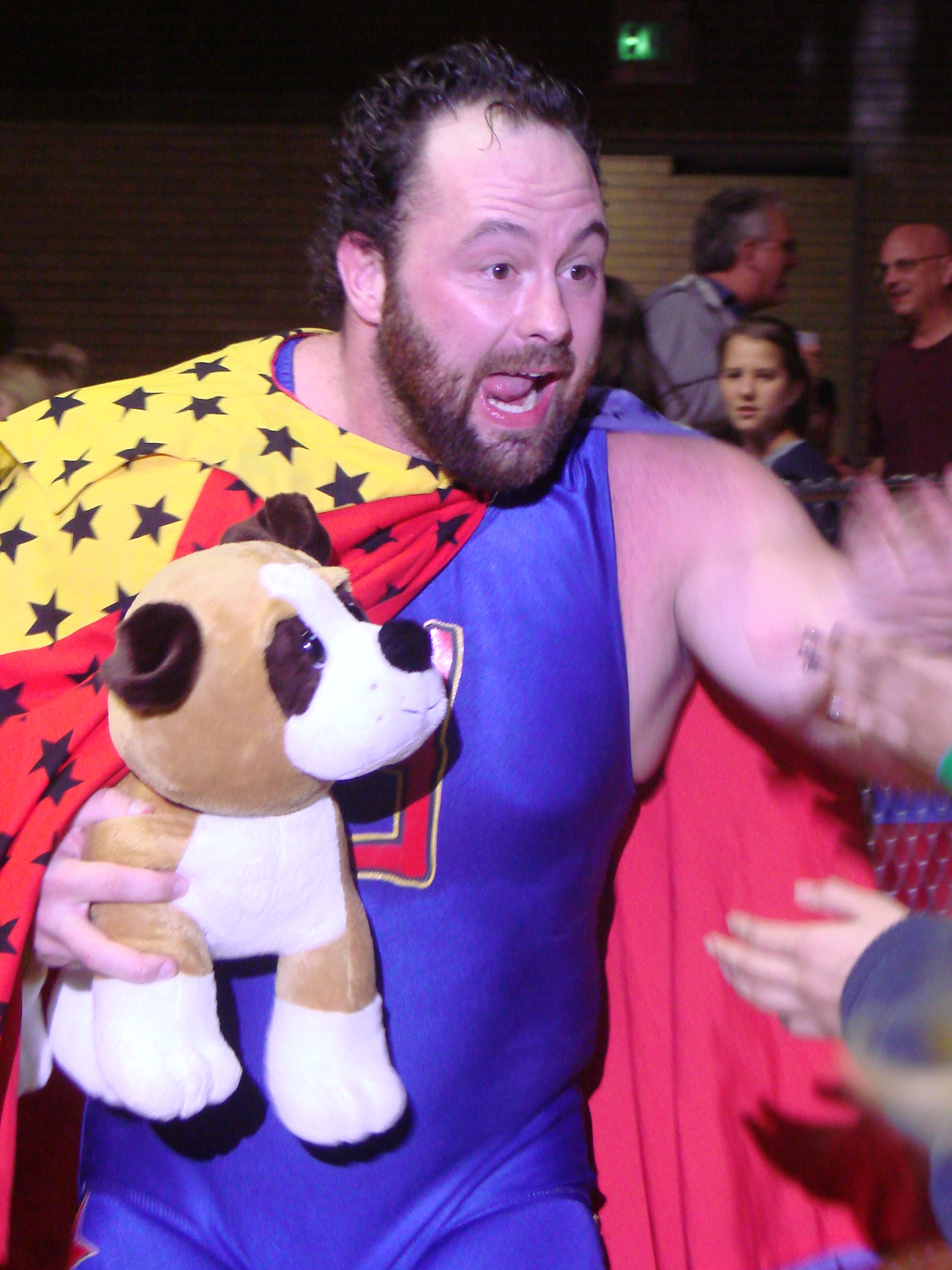 Eugene Dinsmore. Hammond Civic Center, Hammond, IN.